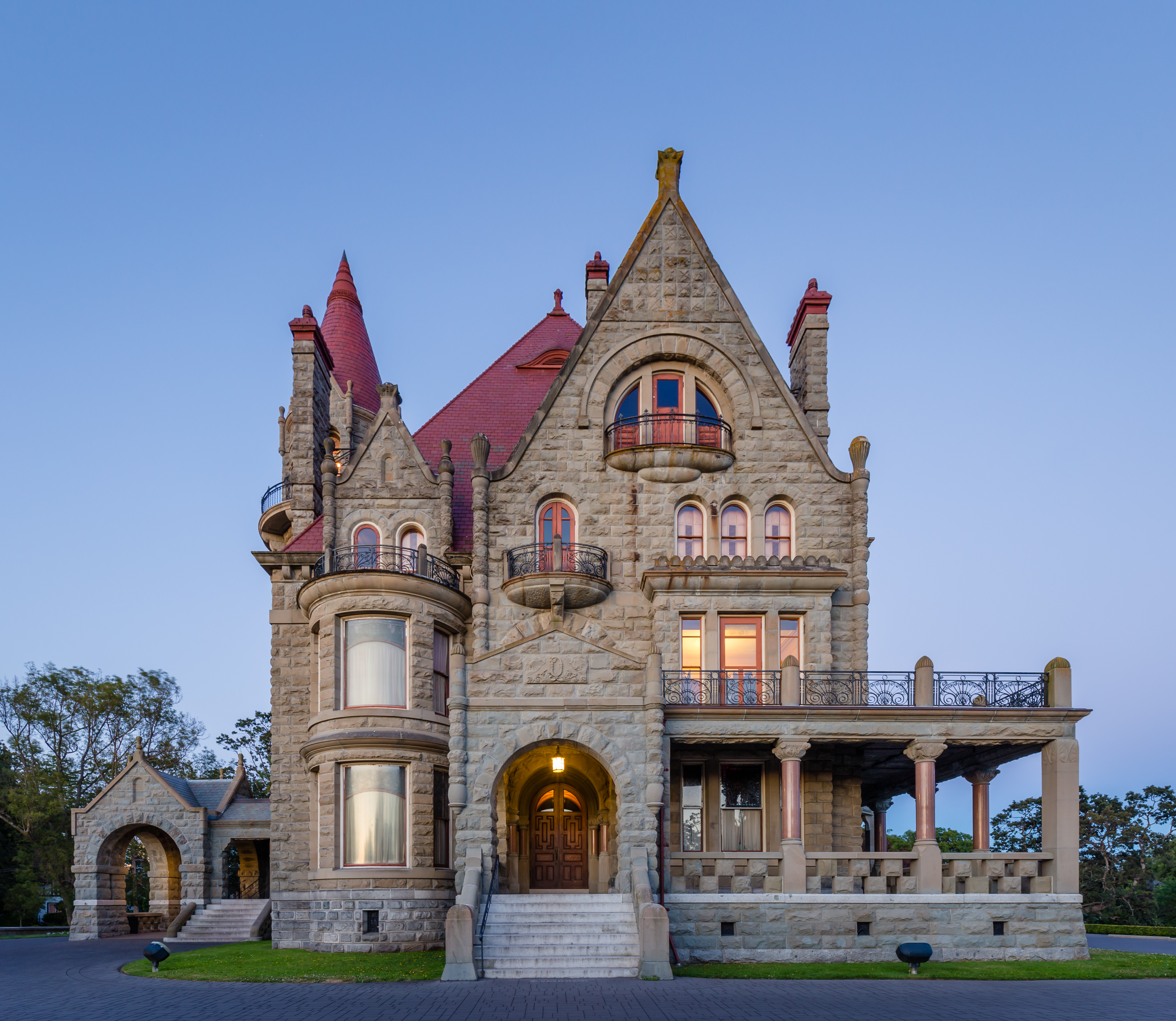 Craigdarroch Castle just after sunset - view from the west, Victoria, British Columbia, Canada